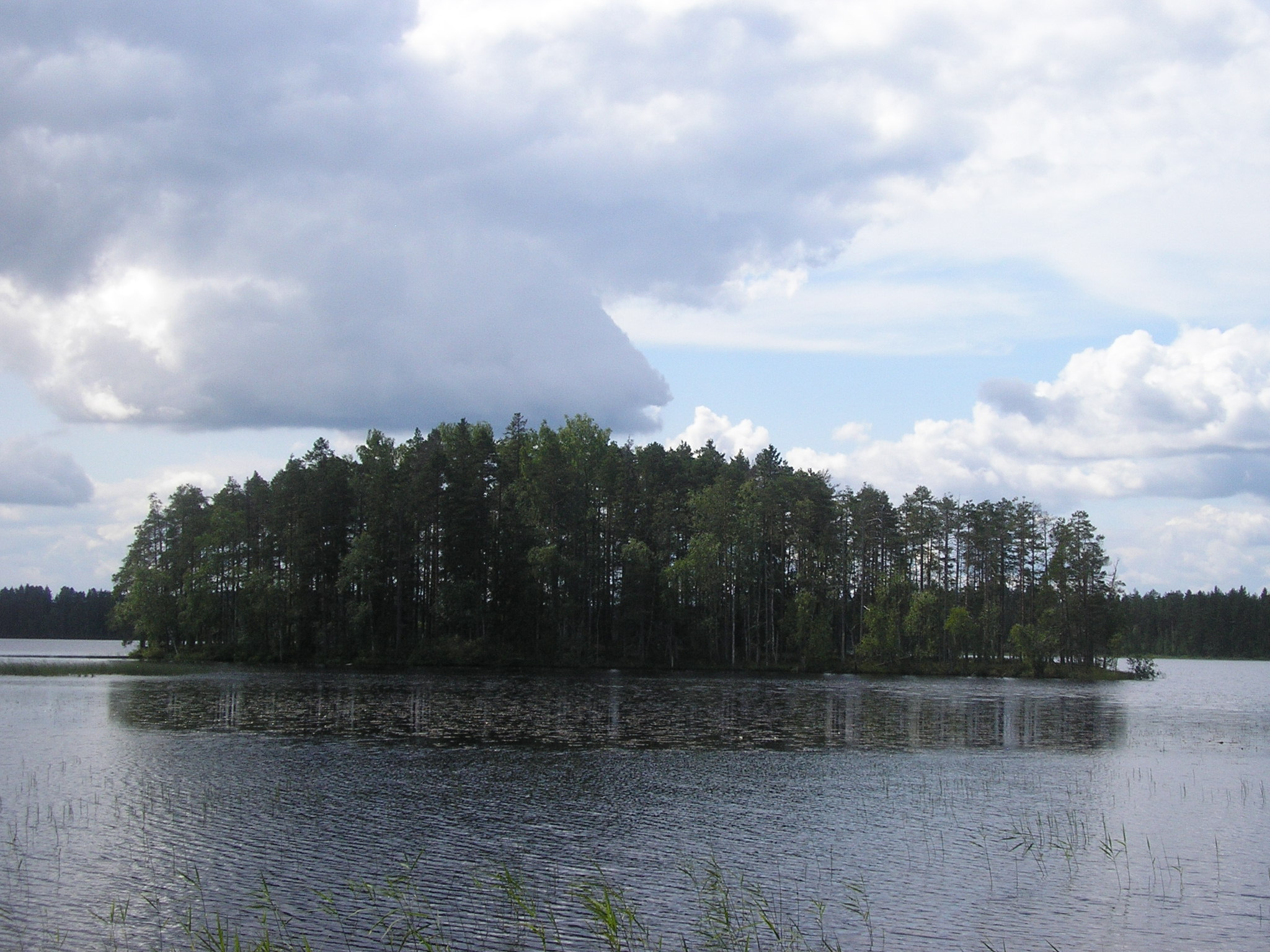 Island called Hännisensaari in Lake Yltiä in Keuruu, Finland